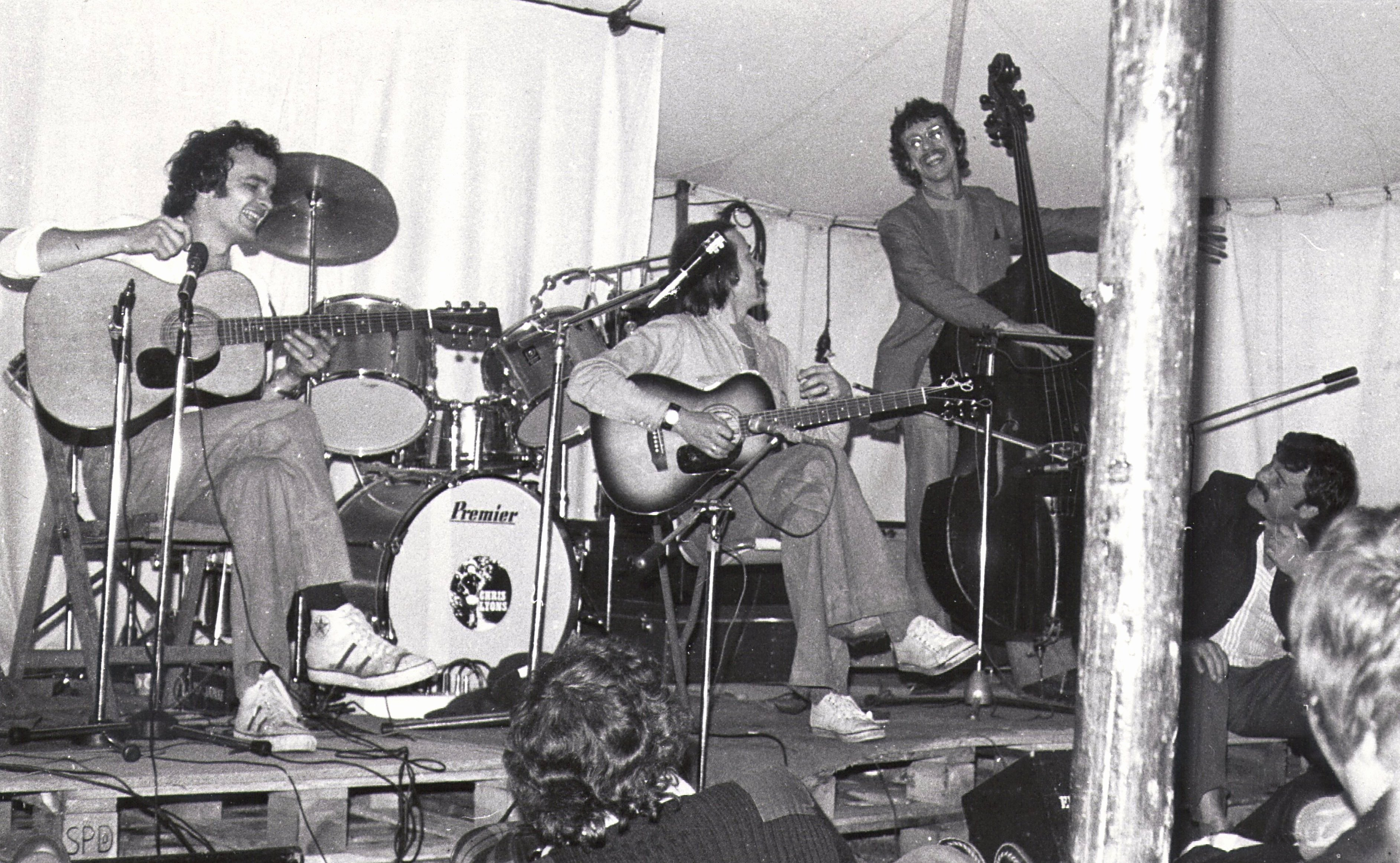 Guitarist Chris Newman (left) with his swing jazz group on the second stage at the 1977 Cambridge Folk Festival, while Diz Disley (extreme right) watches (Tony Rees photograph). Musicians L-R: Chris Newman, guitar; Mike Ring, guitar; Henry Davies, double bass.